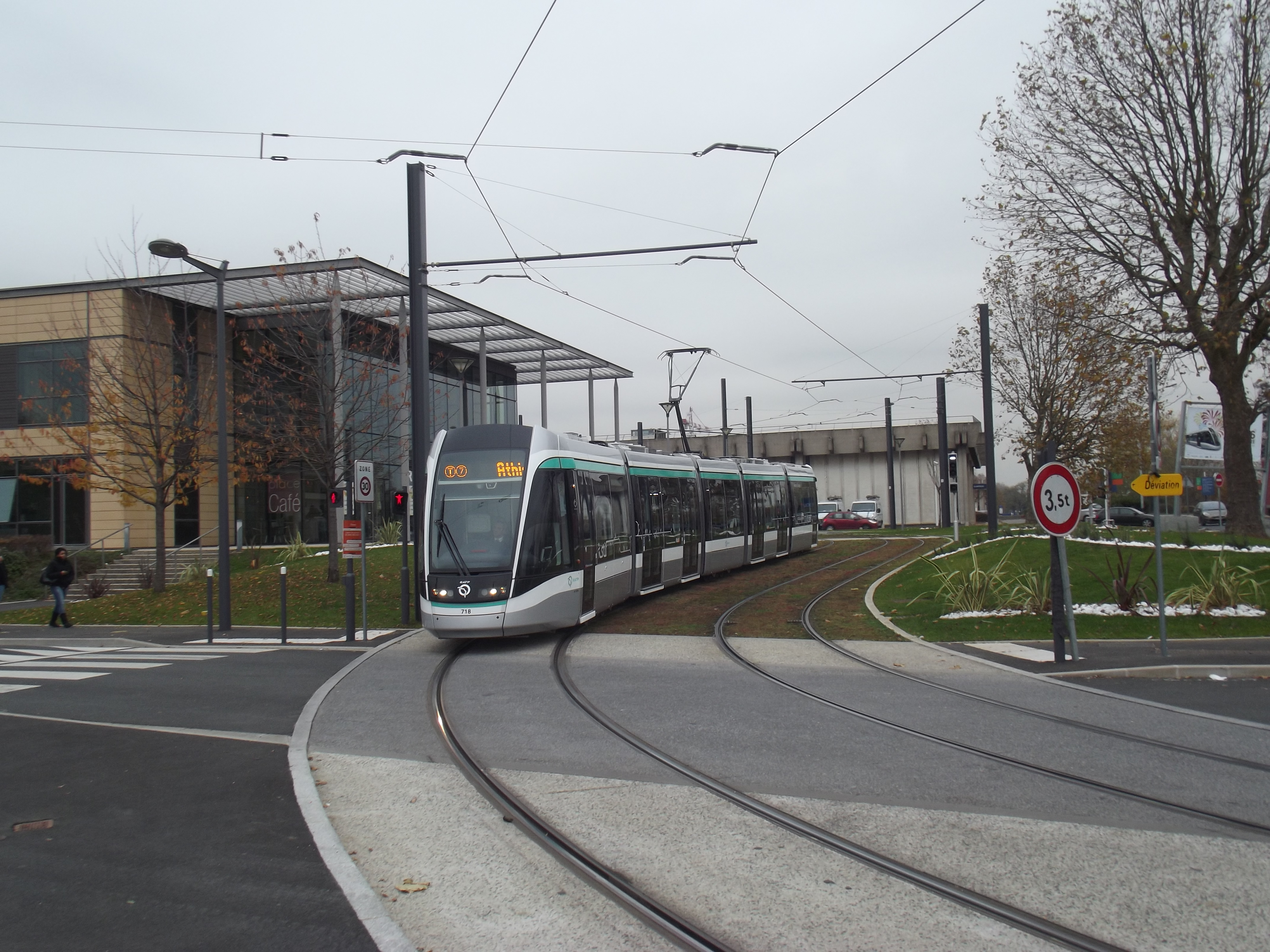 T7 tramline close to La Fraternelle